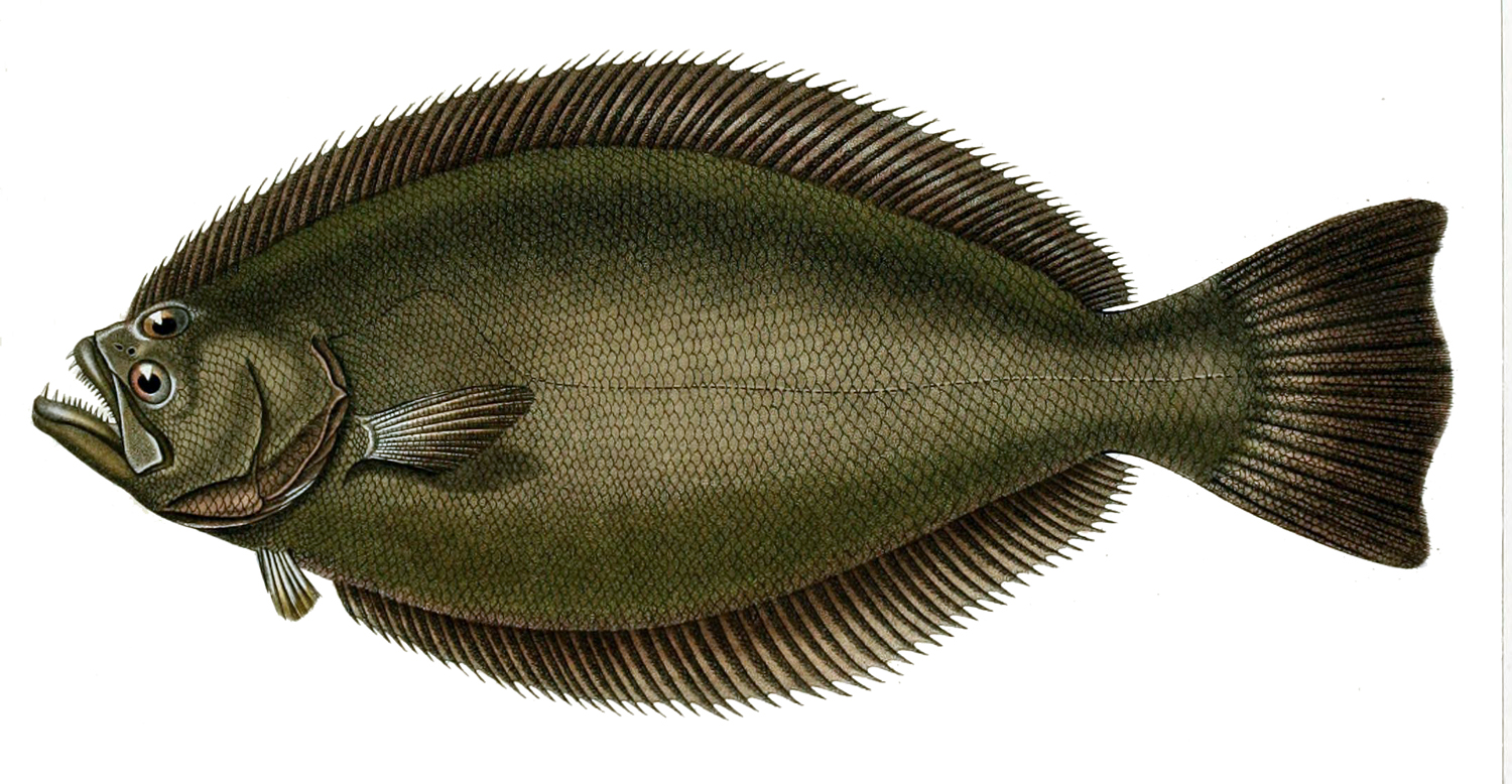 « Platessa orbignyana » = Paralichthys orbignyanus